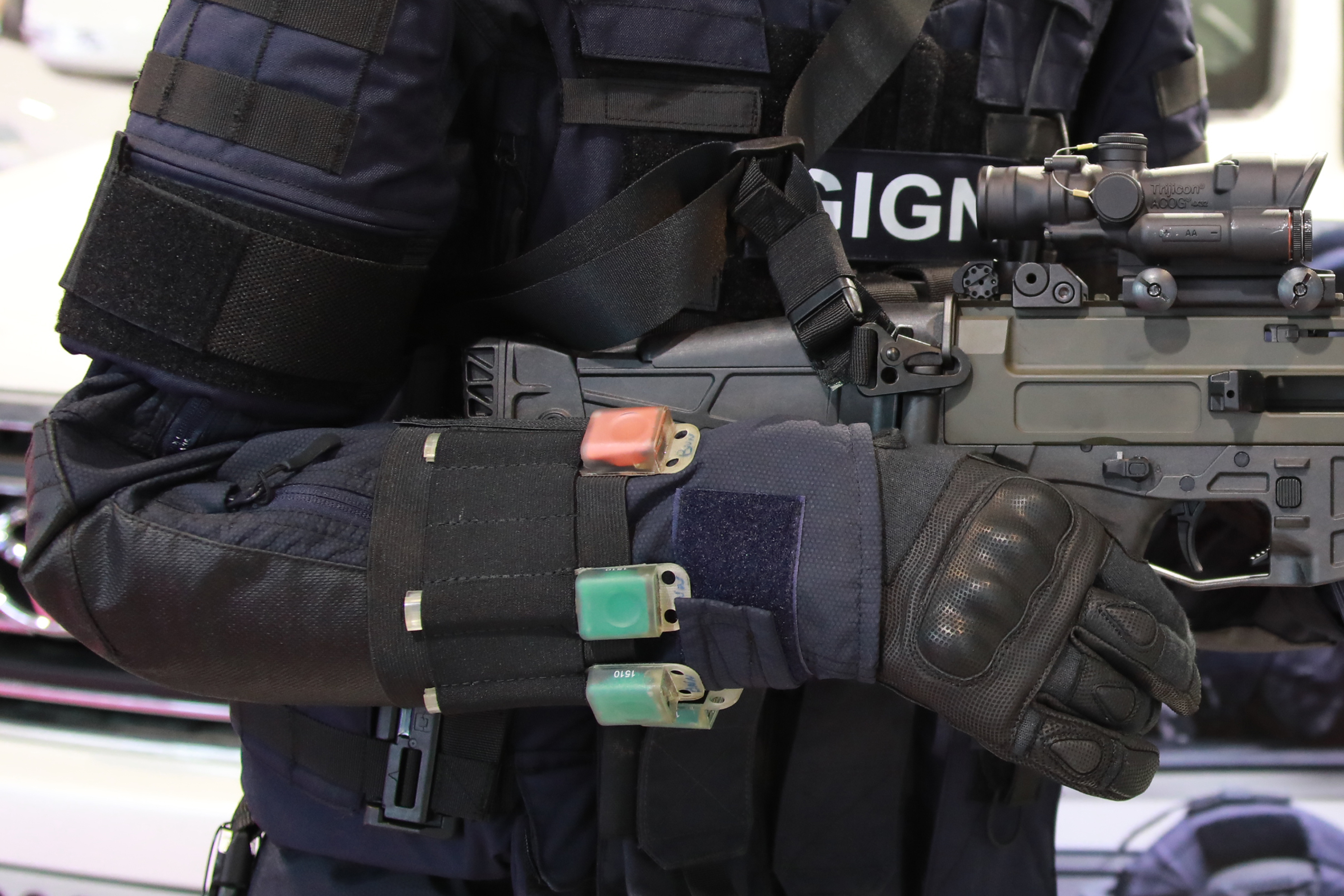 One of several types of glow sticks used by GIGN. Eurosatory 2018